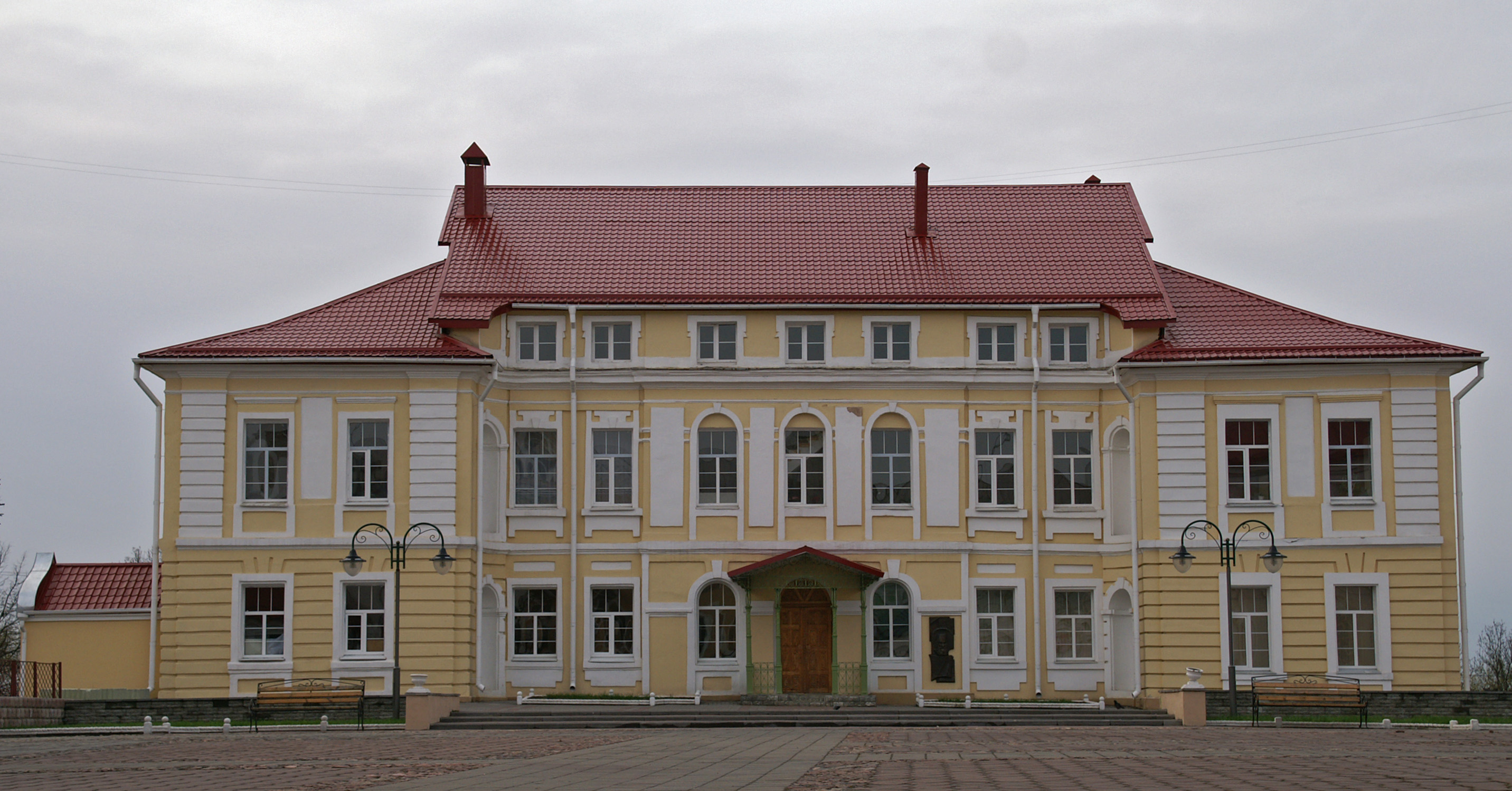 Former arthibishop palace in Mogilev, BelarusБеларуская (тарашкевіца): Былы архірэйскі палац. г. Магілёў This is a photo of Belarusian heritage monument. Reference number: 511Г000025 ( WLM)